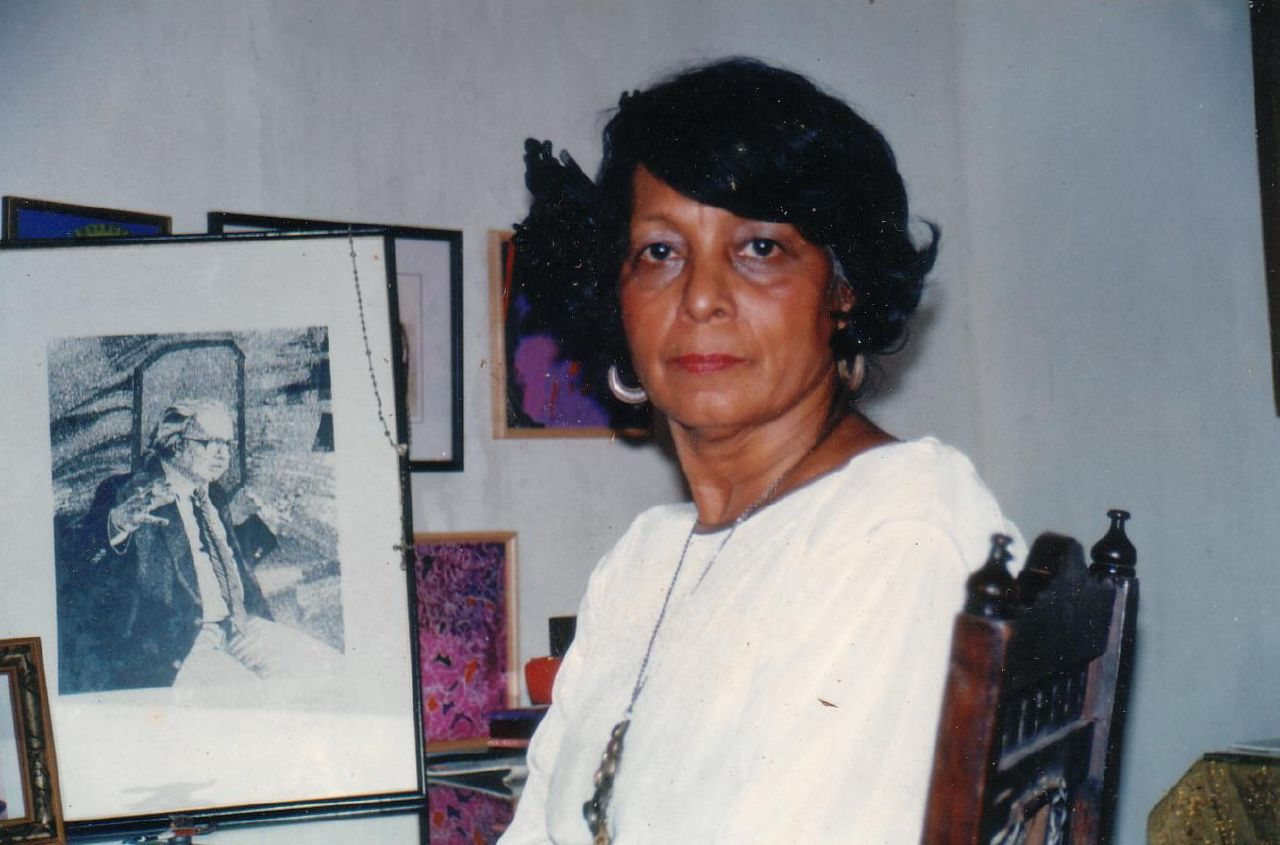 Photographed at her home in Santo Estevam, Tiswadi (Ilhas), Goa, India by Frederick Noronha.